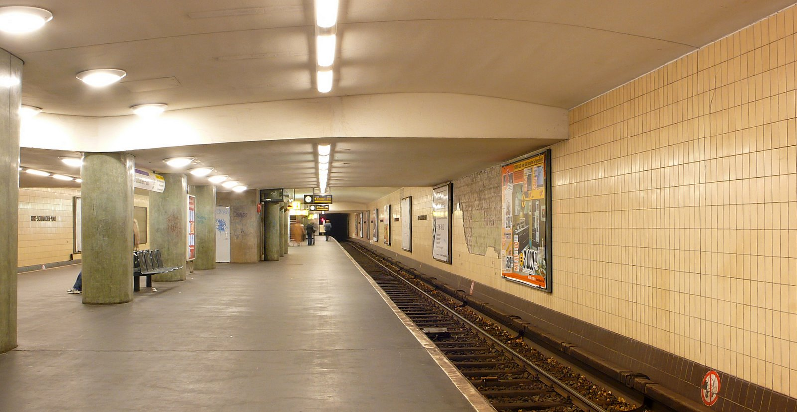 Kurt Schumacher Platz